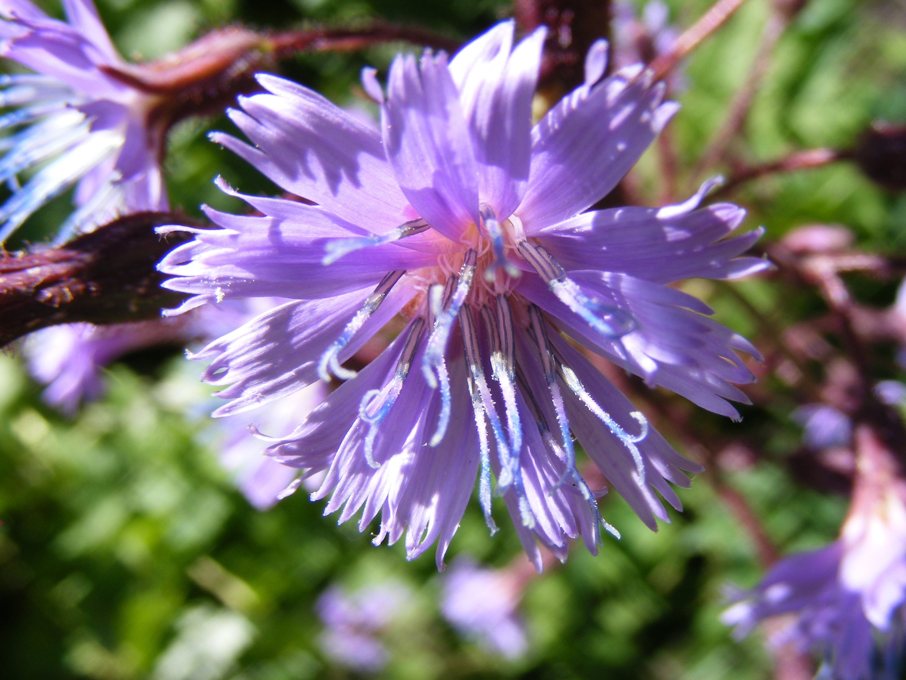 This photo shows Cicerbita alpina flowerhead